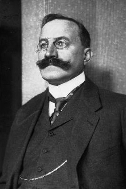 Josef Strzygowski (March 7, 1862 – January 2, 1941) was a Polish-Austrian art historian known for his theories promoting influences from the art of the Near East on European art, for example that of Early Christian Armenian architecture on the early Medieval architecture of Europe